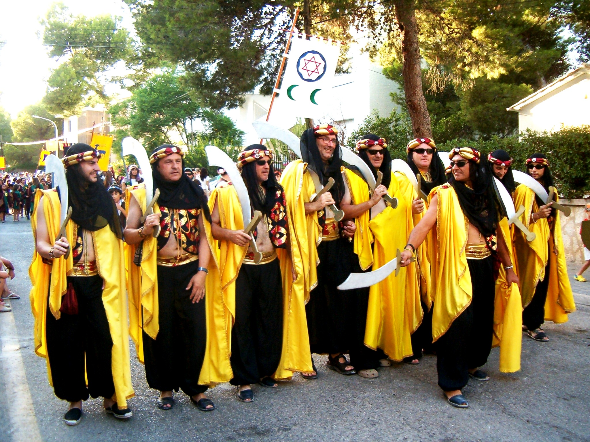 A spanish festivity called moros y cristianos where the king James I landed in Mallorca.